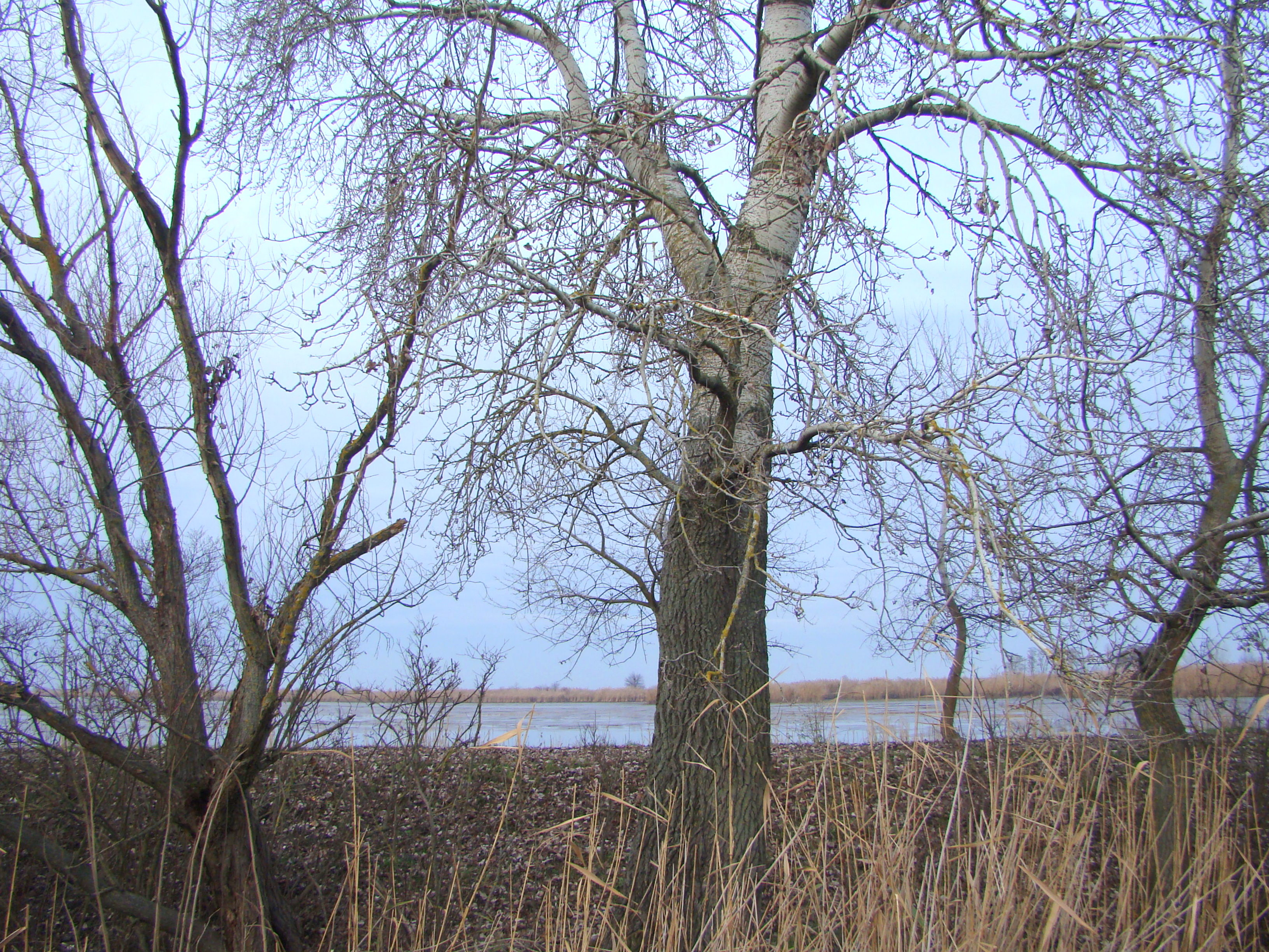 Cefa, Bihor county, Romania